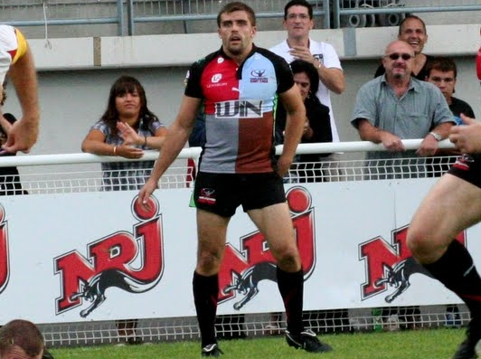 Chris Melling Quins